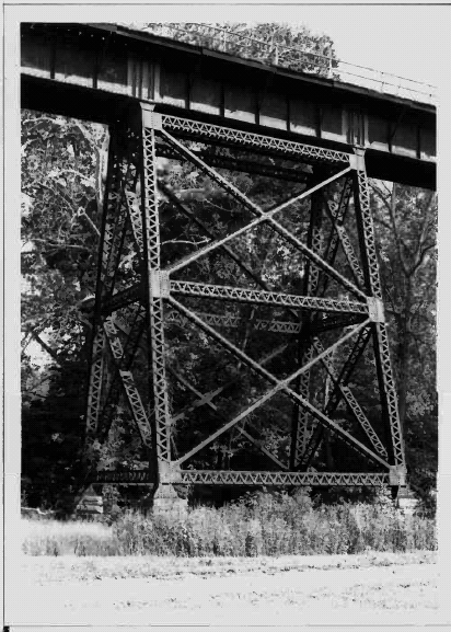 Looking westward at one of tower spans on the Frederick county side, taken in 1991